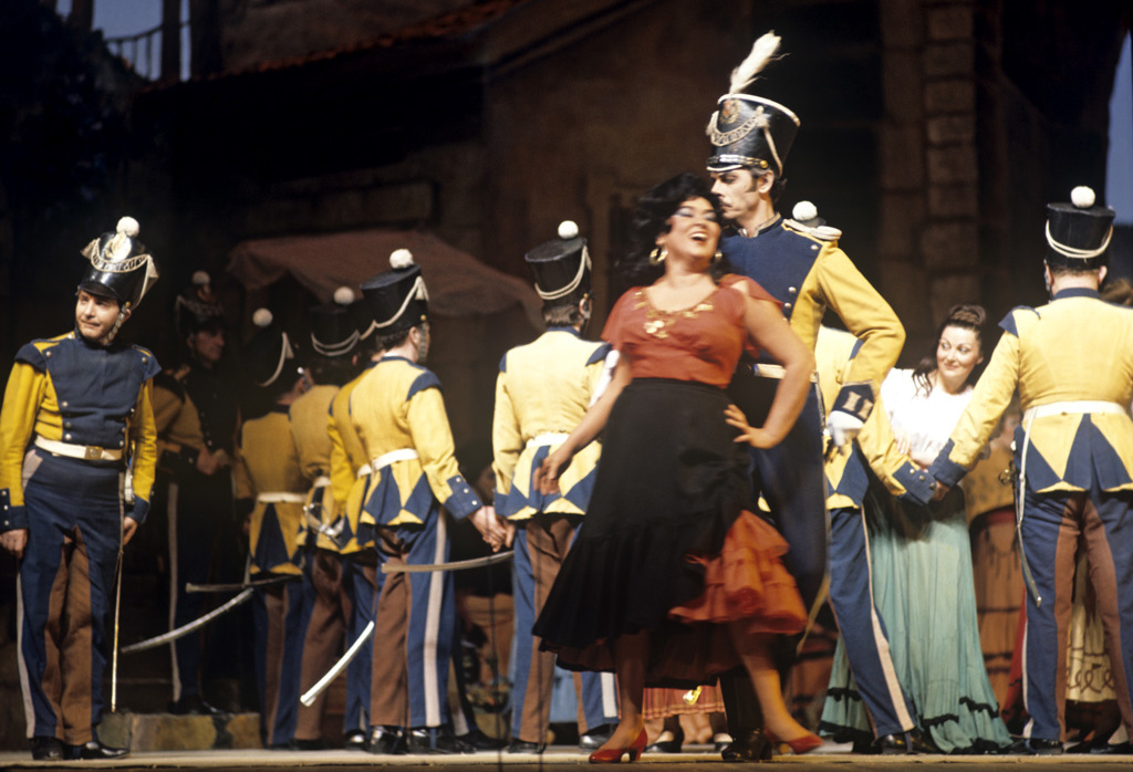 “Irina Arkhipova as Carmen and Vladislav Pyavko as Jose”. Irina Arkhipova as Carmen and Vladislav Pyavko as Jose in Georges Bizet's opera staged at the USSR State Academic Bolshoi Theatre.